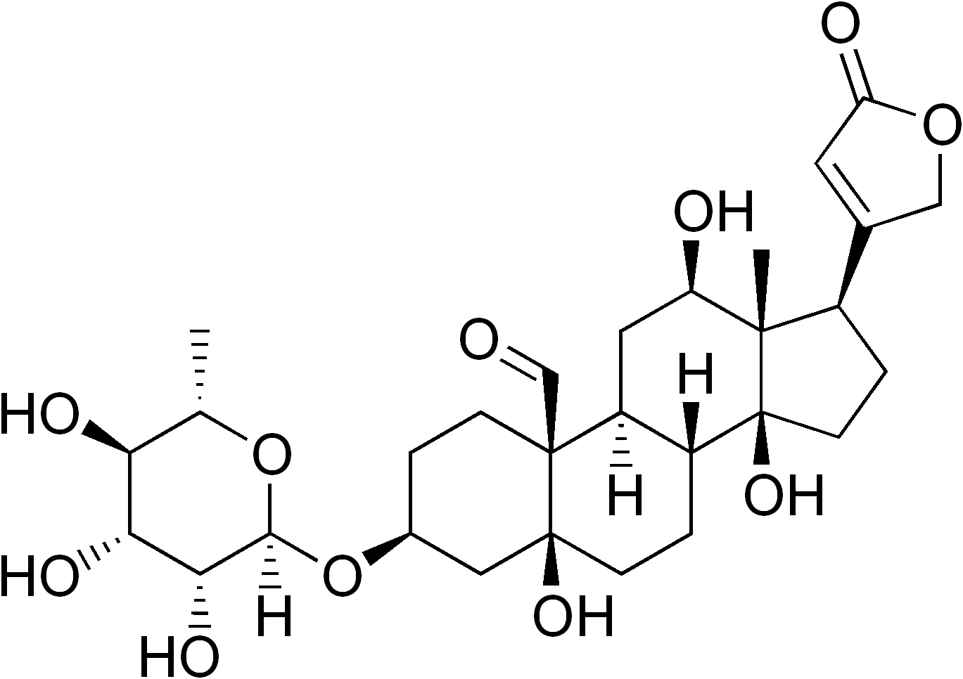 chemical structure of beta-antiarin